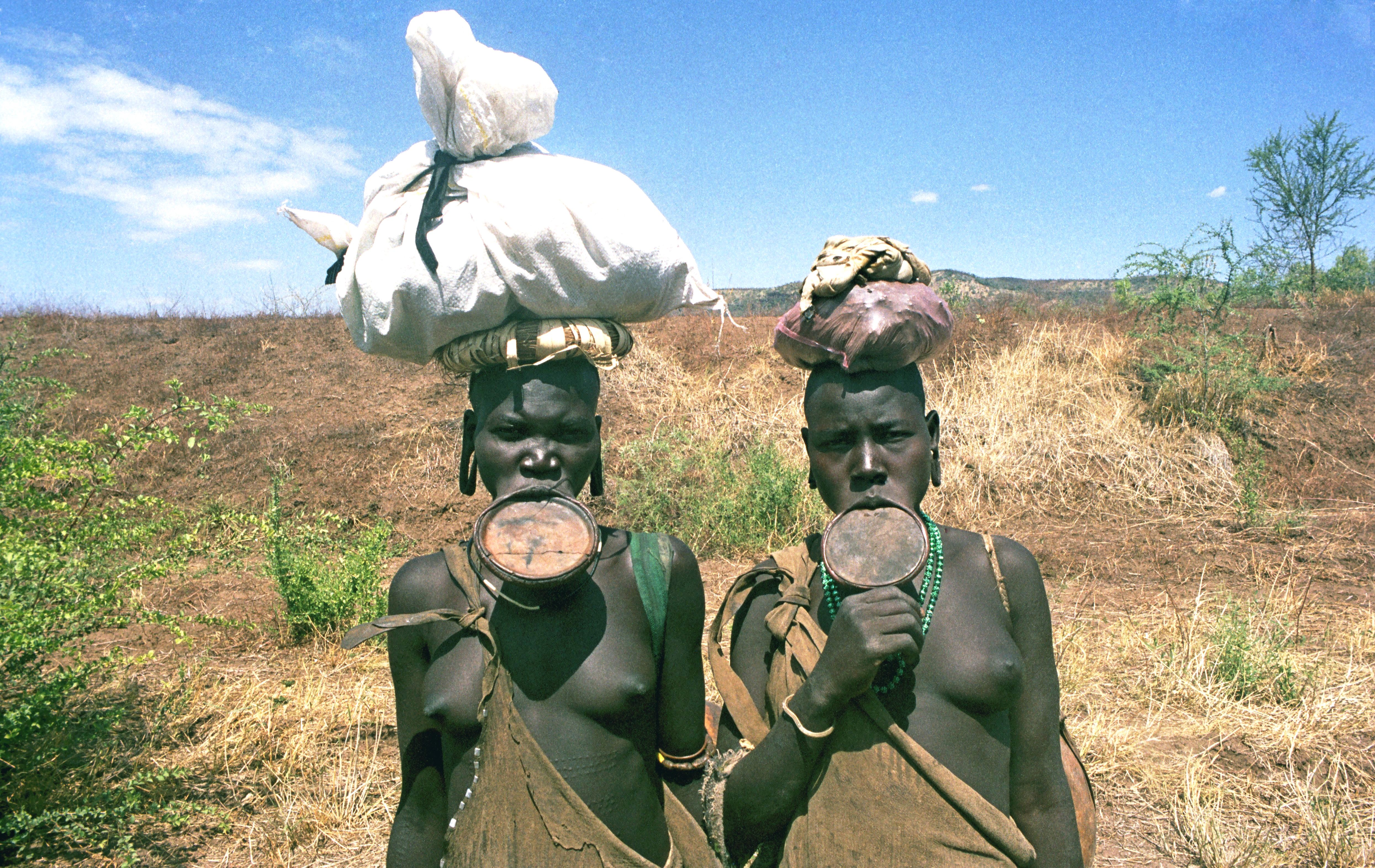 Young woman in Mago NP